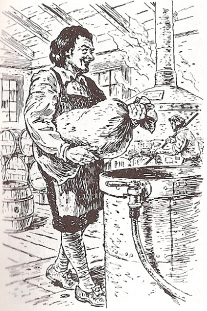 Engraving of Louis Prud'homme, 1611-1671, first militia captain of Montreal, founder of first commercial brewery in New France